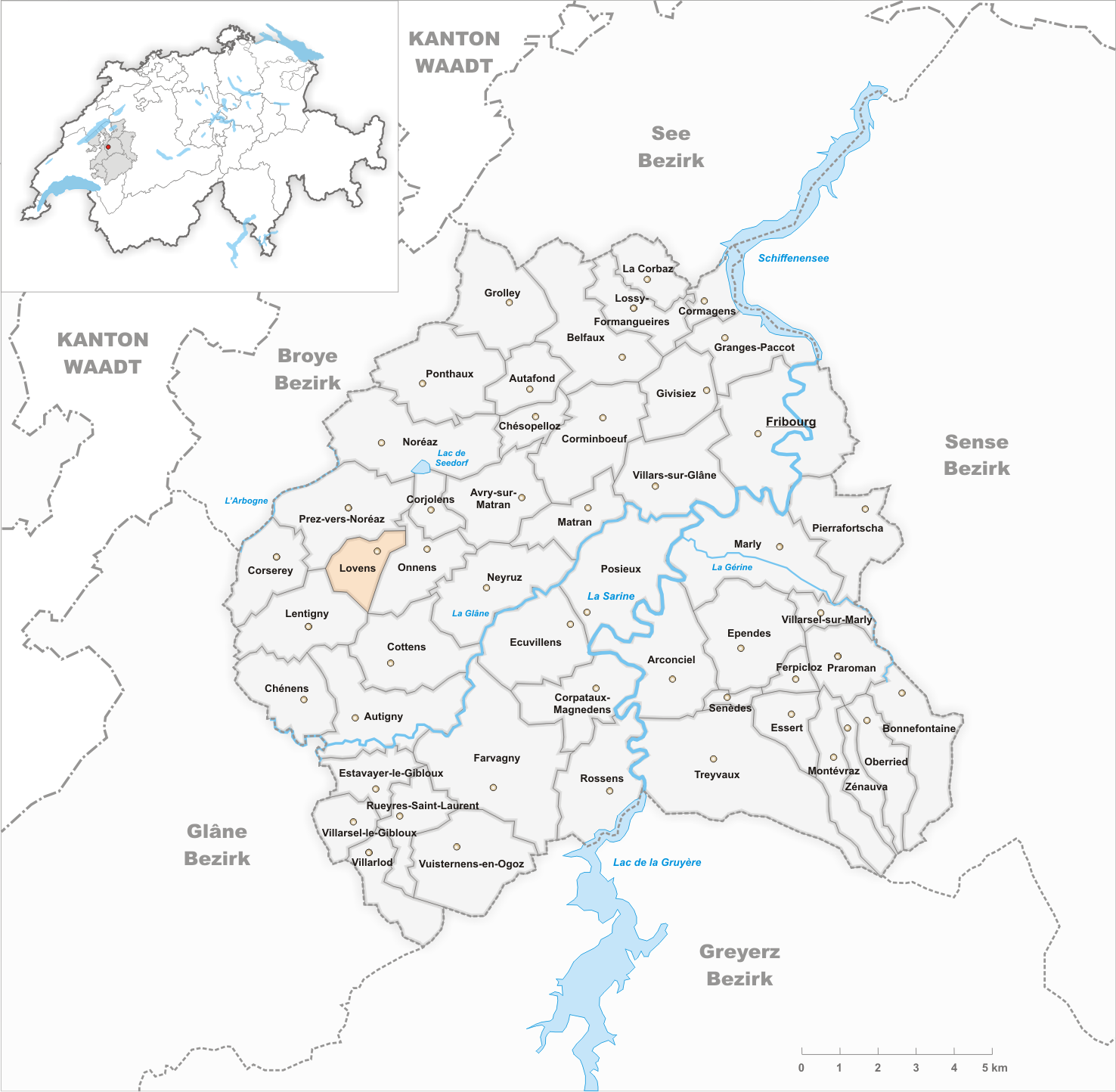 Municipality Lovens Artist: Tschubby